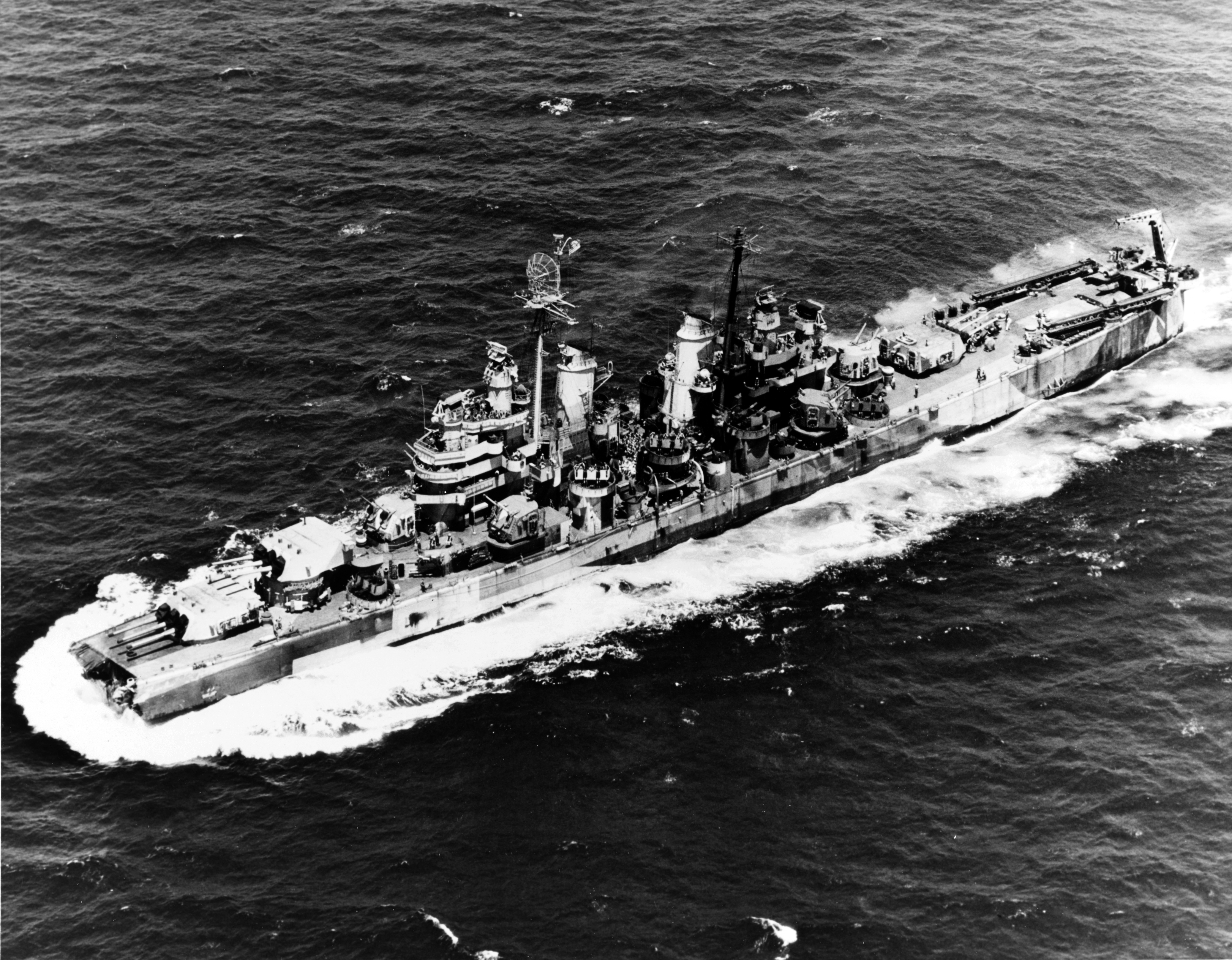 The U.S. Navy heavy cruiser USS Pittsburgh (CA-72) en route to Guam for temporary repairs, shortly after she lost her bow in a typhoon on 5 June 1945.